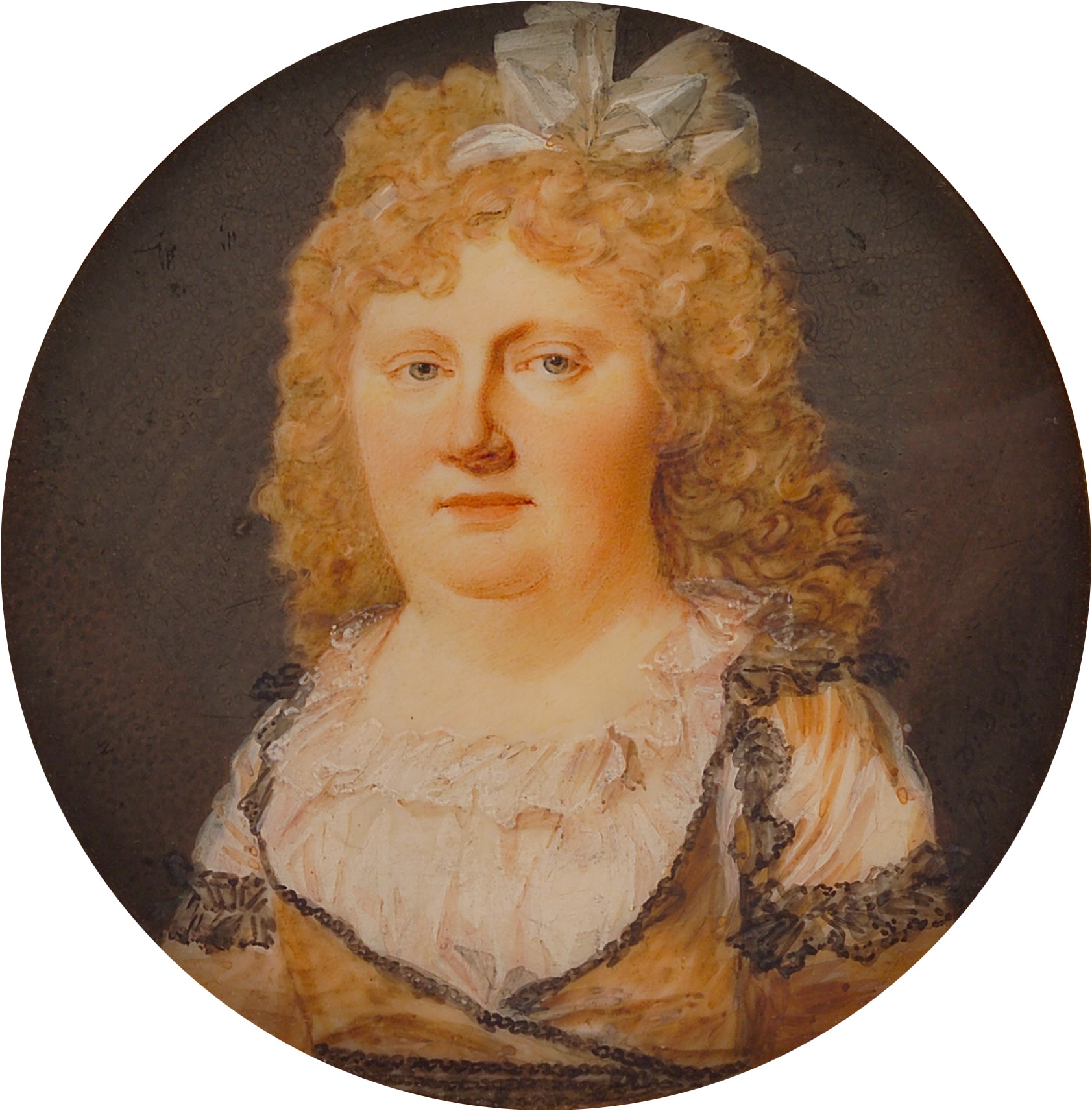 Portrait of Princess Louise of Saxe-Gotha-Altenburg (1756–1808), Duchess of Mecklenburg-Schwerin